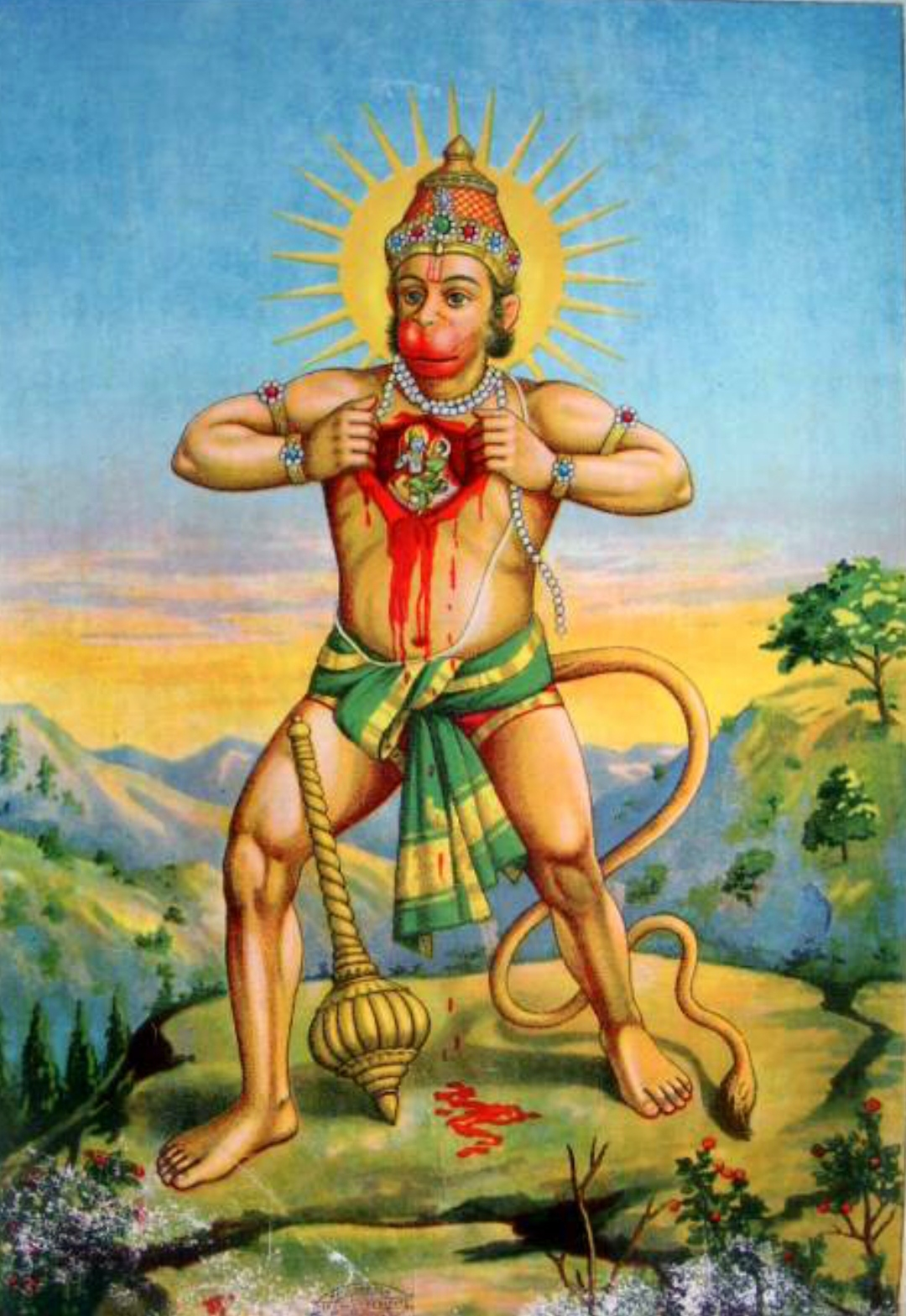 A version from the printing press of Ravi Varma, c.1910's Source: ebay, Jan. 2007